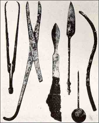 A collection of ancient Egyptian medical knives, cupping cups, spatula, and forceps. Dated to about 4,000 B.C. Mueller, V. Year unstated. Surgical Instruments. Chicago:Pres. V. Mueller & Co. Page 4. Figure 5.